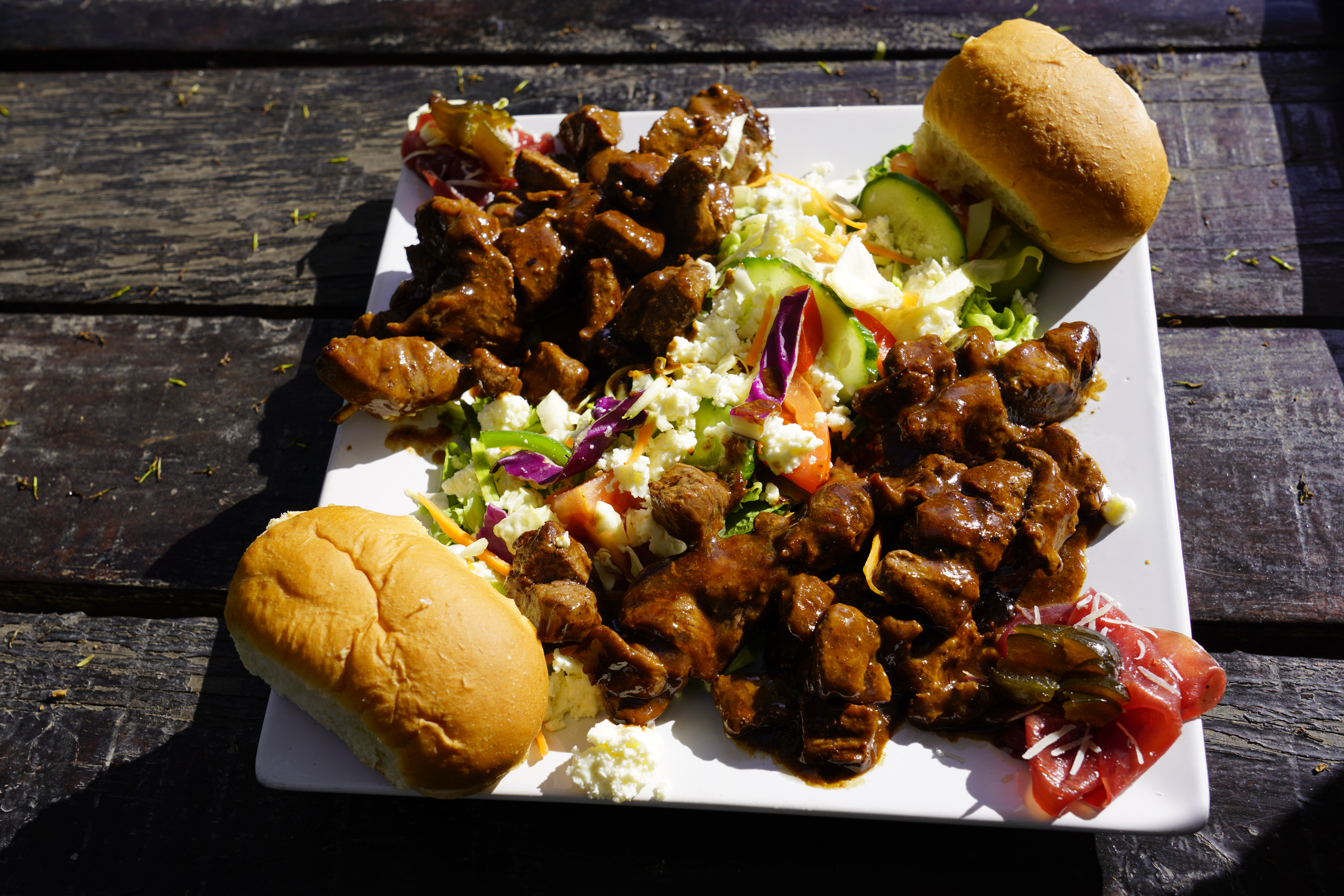 Ostrich Platter at an Ostrich Farm near Oudtshoorn